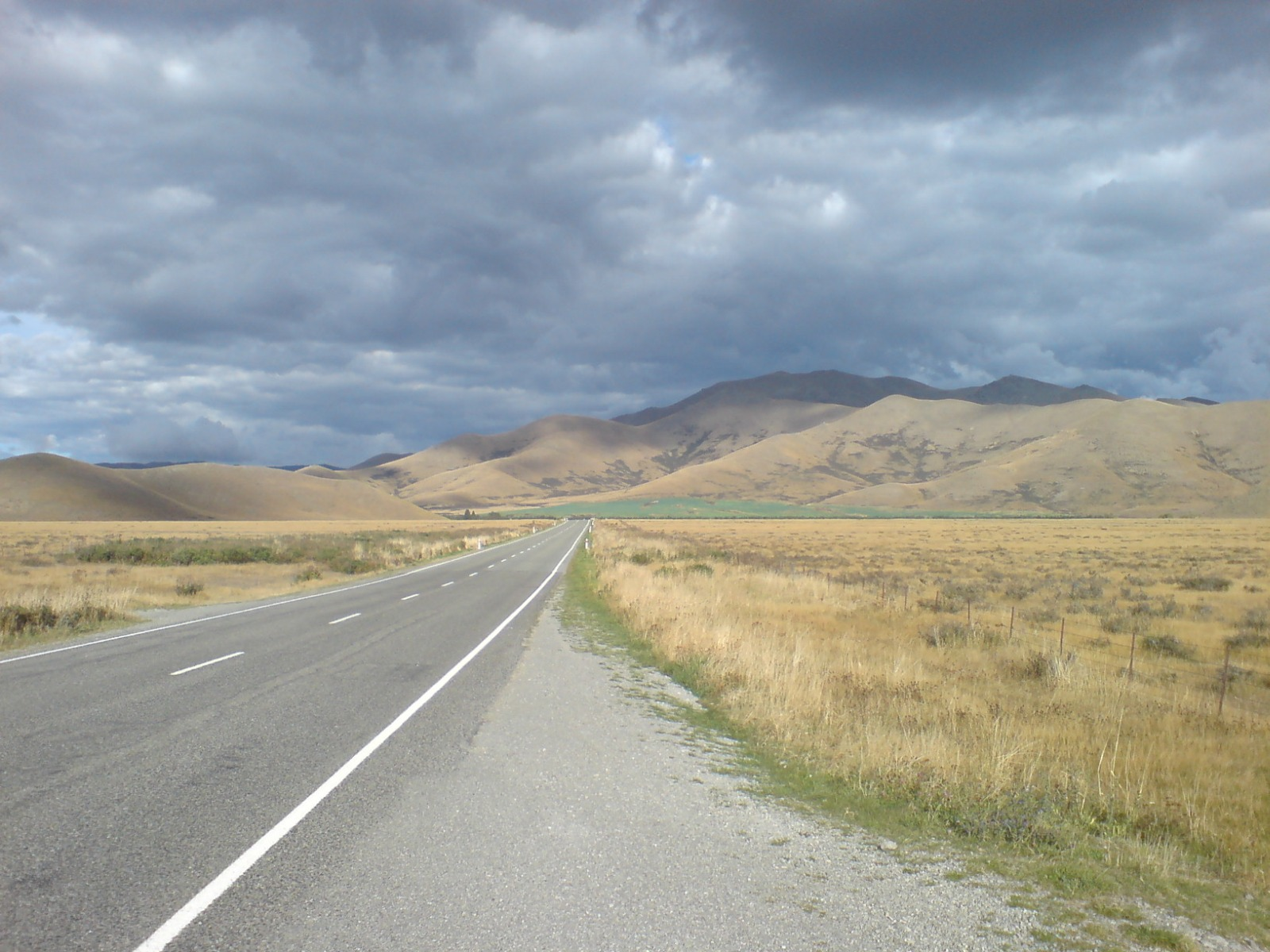 The road to Lake Tekapo from Christchurch, several km from Lake Tekapo, New Zealand. Looking southwards or eastwards to some of the foothills in the area. The grass colouration is typical of the Mackenzie Country in autumn, though apparently, the change isn't much different in summer.